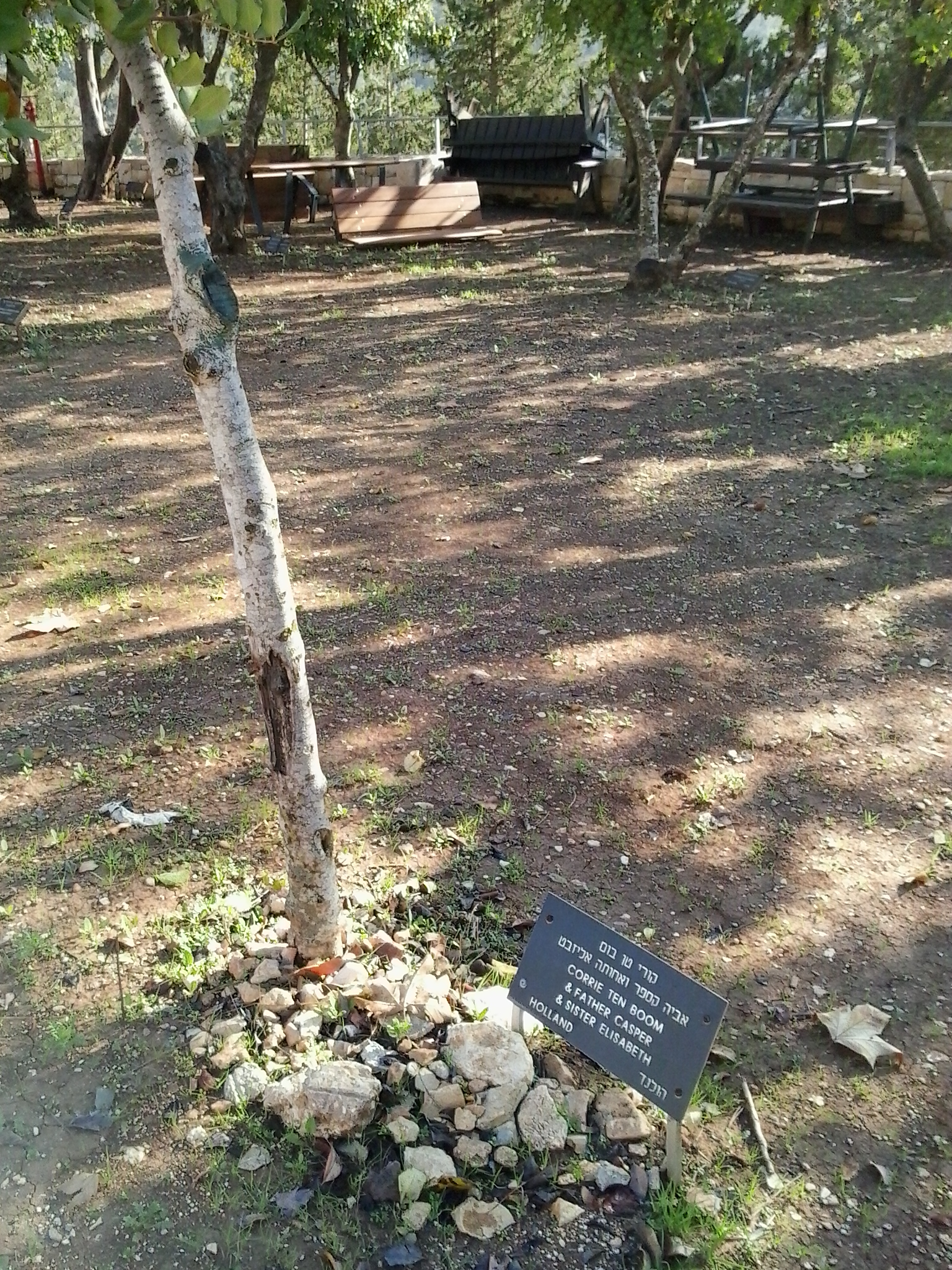 The tree planted at Yad Vashem honoring Righteous Among the Nations Corrie ten Boom